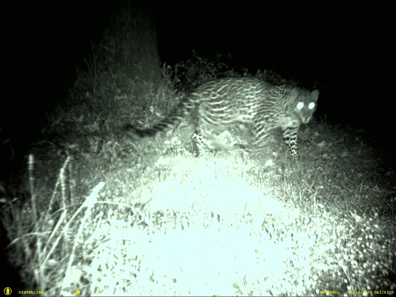 Leopard (Panthera pardus) in the Garhwal Hills of the Western Himalaya, India.